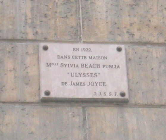 Memorial plaque at 12, Rue de l'Odeon Paris, France (where Sylvia Beach's bookstore „Shakespeare & Company“ was located)